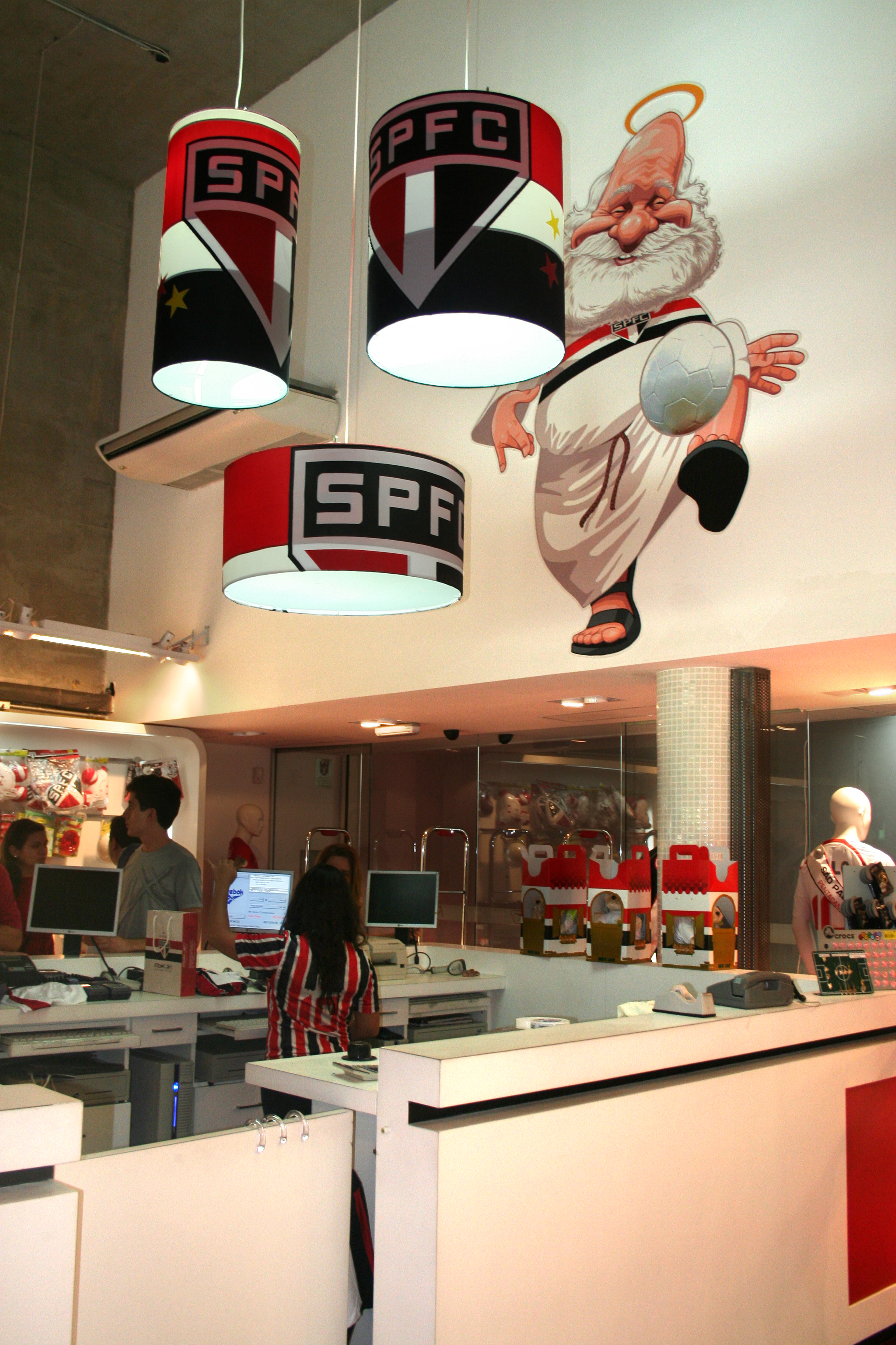 inside photo of the Reebok Concept Store, located in the Morumbi Concept Hall.